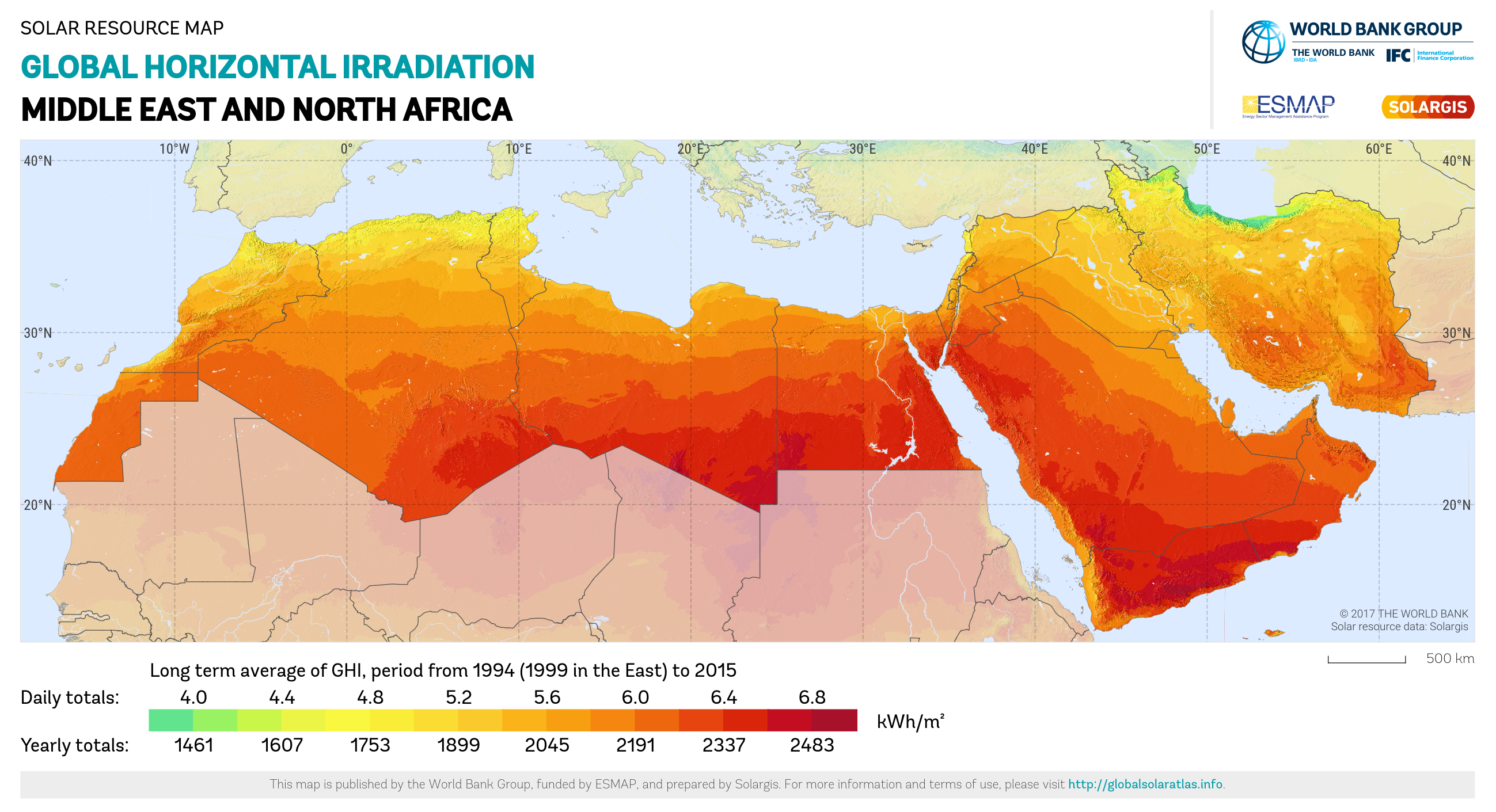 Global Horizontal Irradiation in North Africa and the Middle East from the Global Solar Atlas